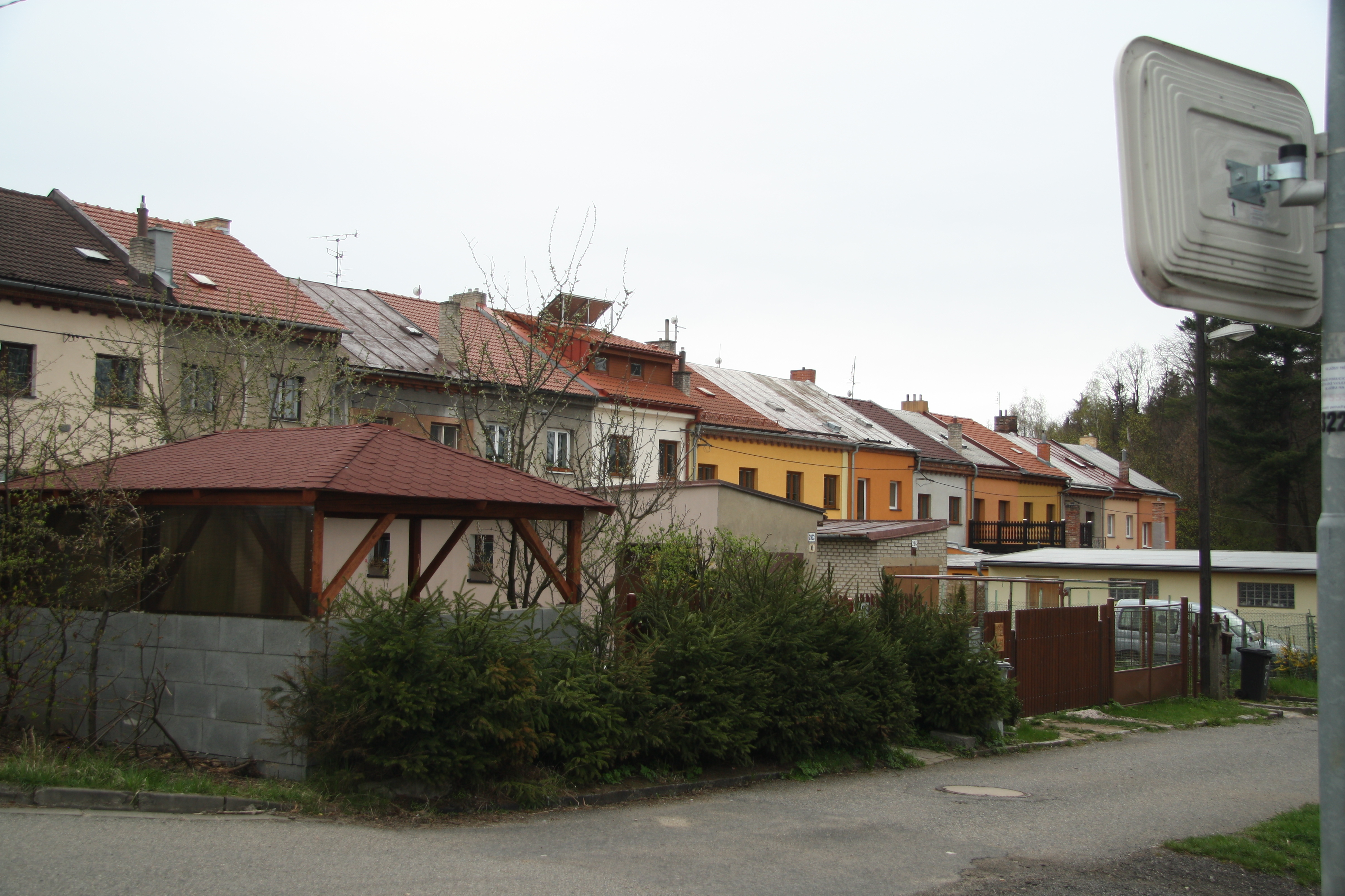 Old part of Helenín, Jihlava, Jihlava District.